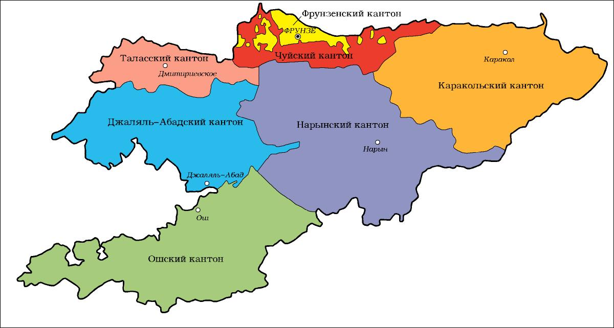 Map of Kigriz ASSR in 1927